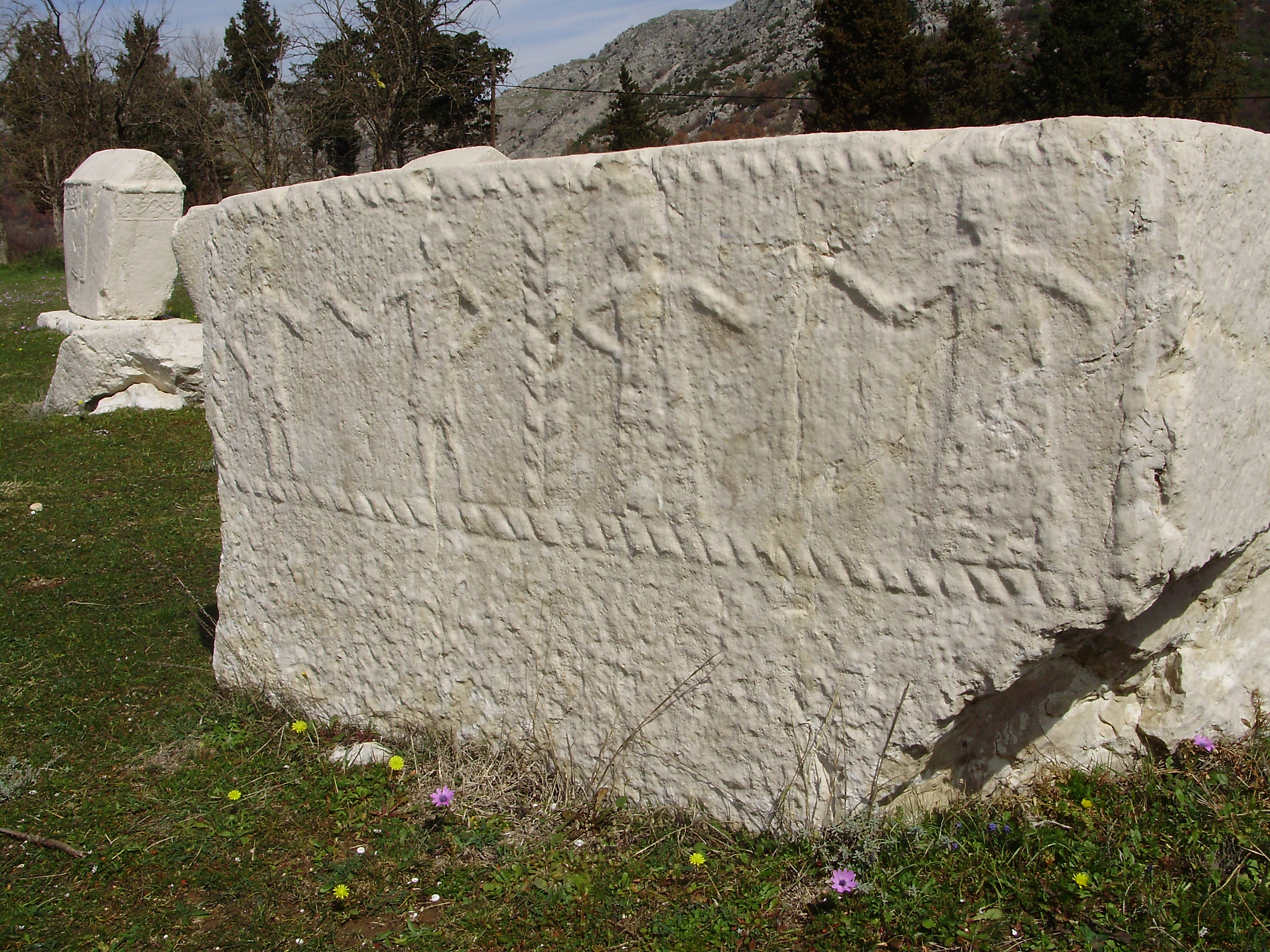 Medieval tombstone